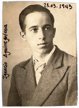 Basque pilot who fought with the Red Army in WWII